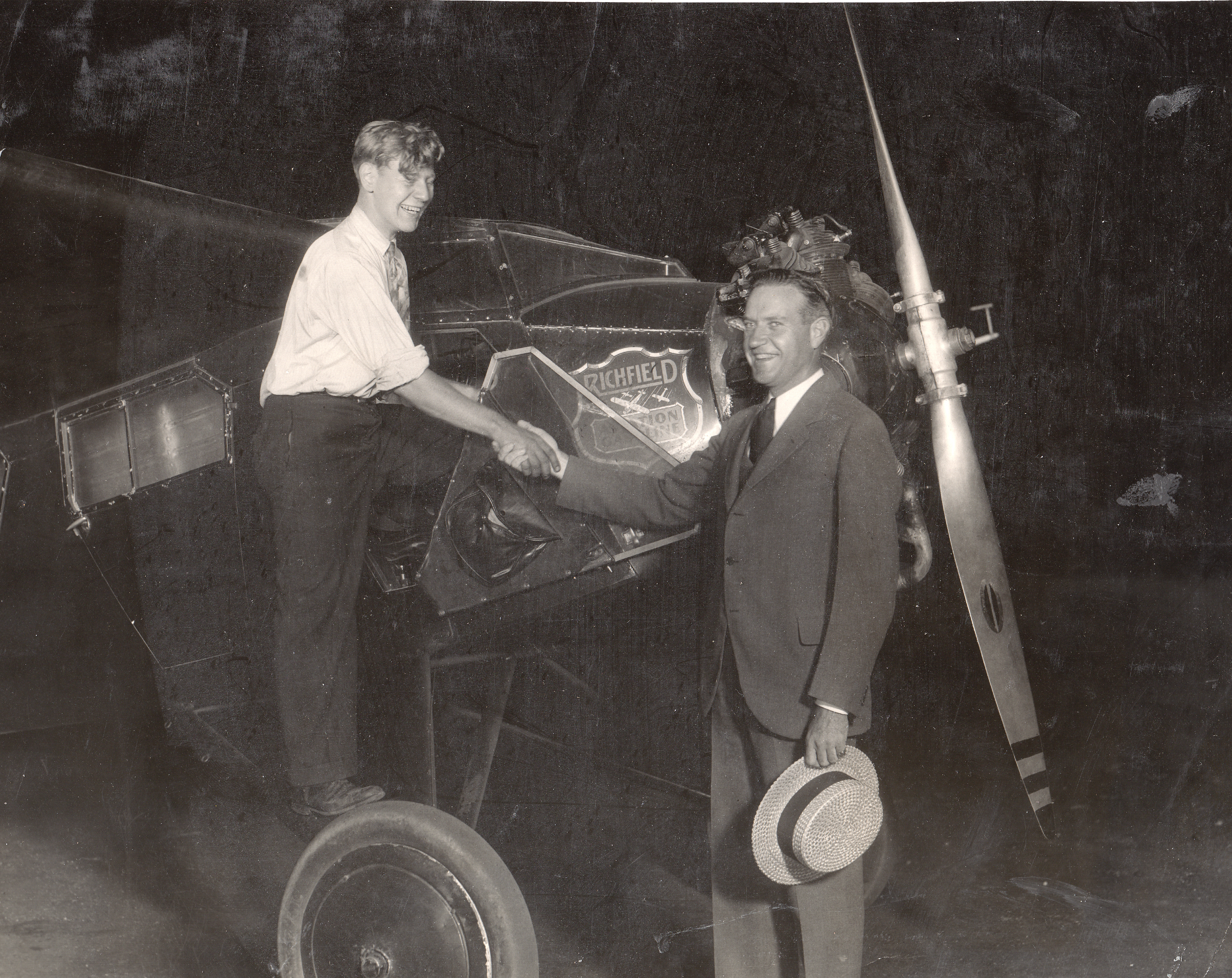 Eddie August Schneider (1911-1940) shaking the hand of Richard Bronaugh Barnitz (1891-1960) in Los Angeles, California on August 21, 1930. The image was scanned at 600dpi, and compressed to 100 quality. The image was cropped to remove the white border. The image was then imported into PicMonkey and the exposure was auto-adjusted.